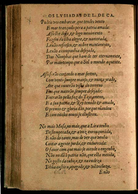 Page of Os Lusíadas, by Luís de Camões